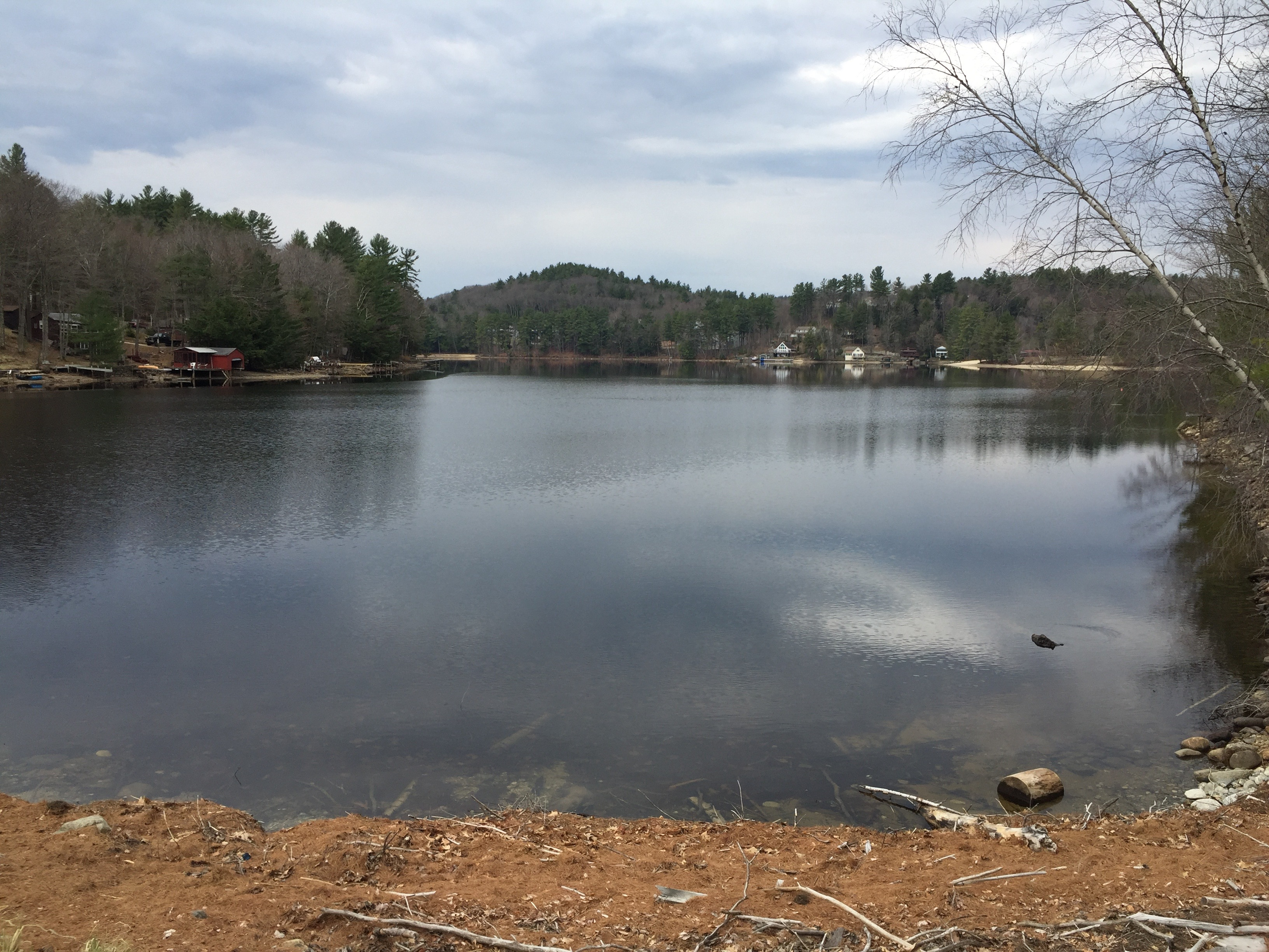 Weare Reservoir in New Hampshire; view from outlet dam